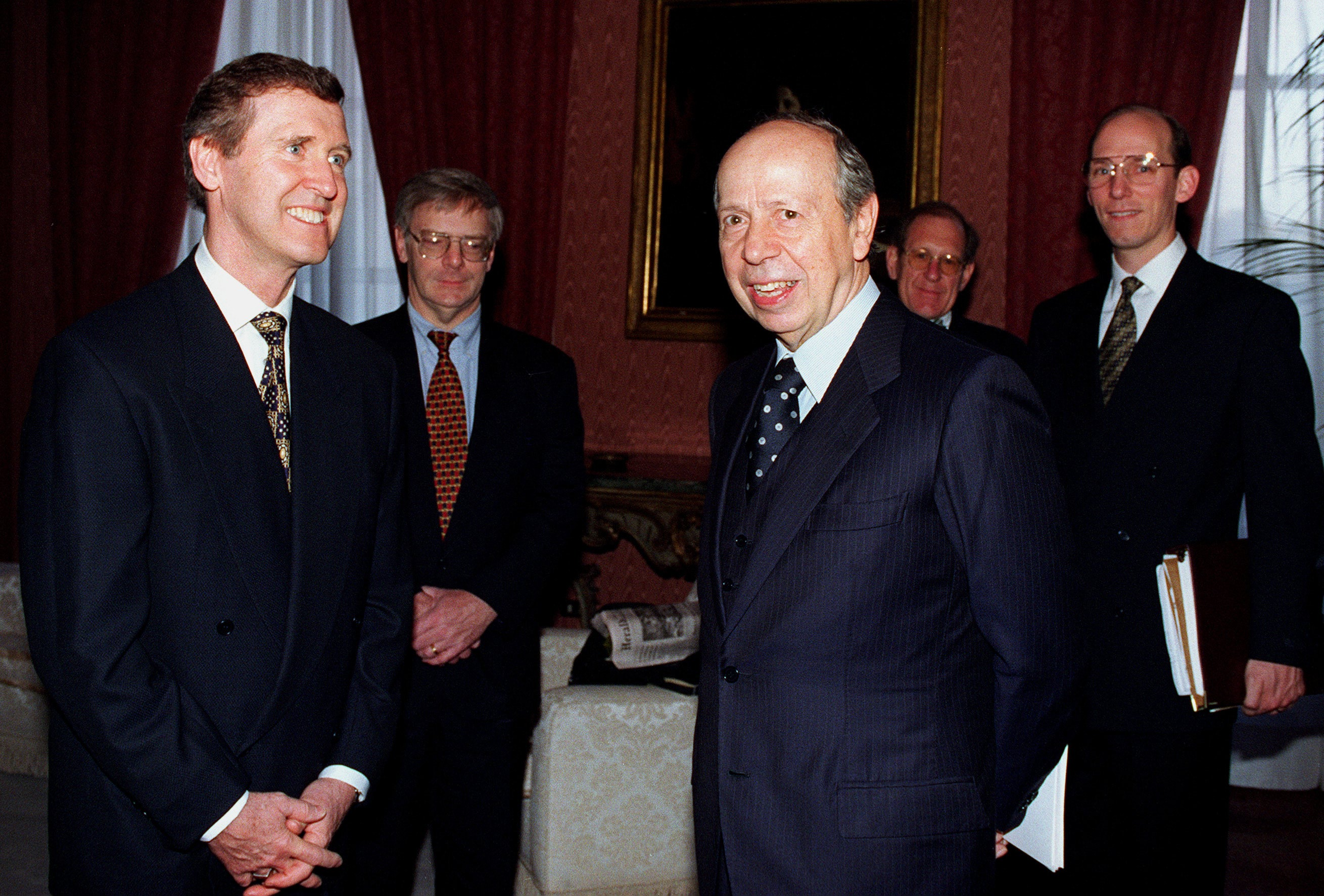 Secretary of Defense William S. Cohen (left) meets with Minister of Foreign Affairs Lamberto Dini (right) on March 7, 1997, in Rome, Italy.